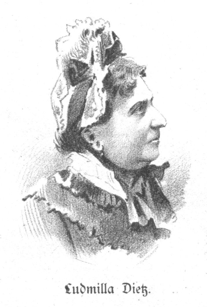 Portrait of Ludmilla Dietz (1836-1896), Austrian actress.